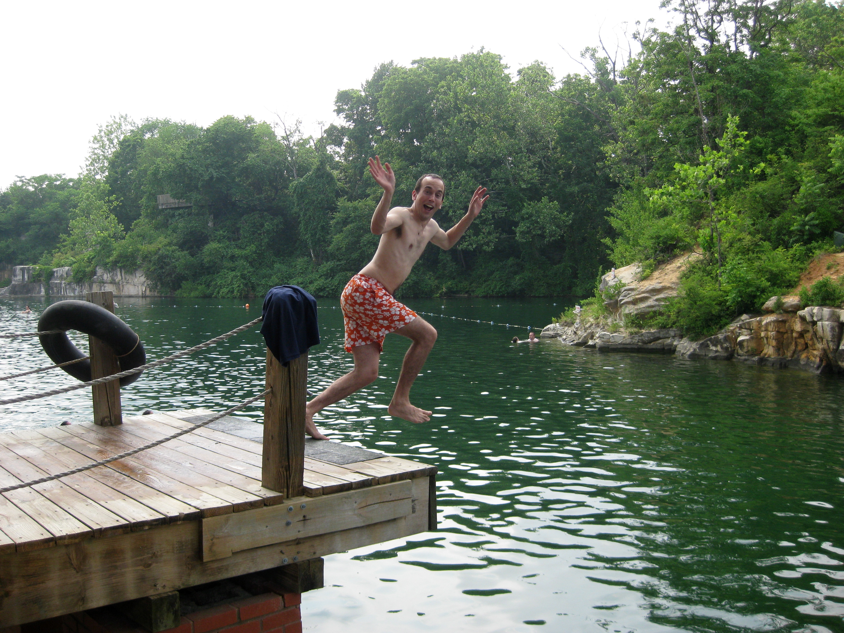 Man jumping from platform at Beaver Dam, Maryland.